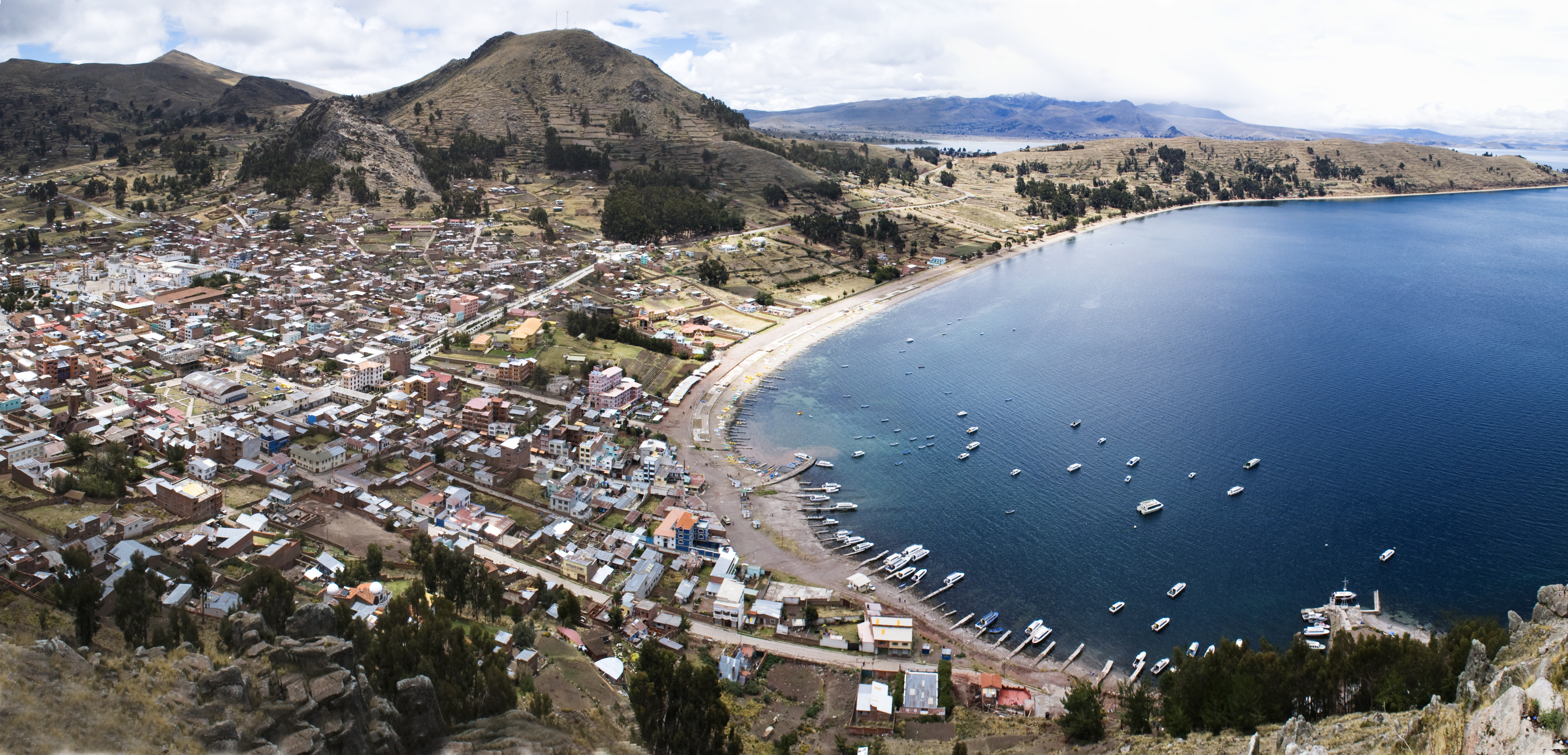 Panoramic view of Copacabana, a Bolivian city at the shore of Lake Titicaca.